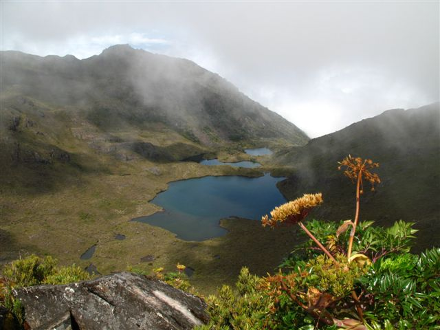 Costa Rica Chirripo paramo